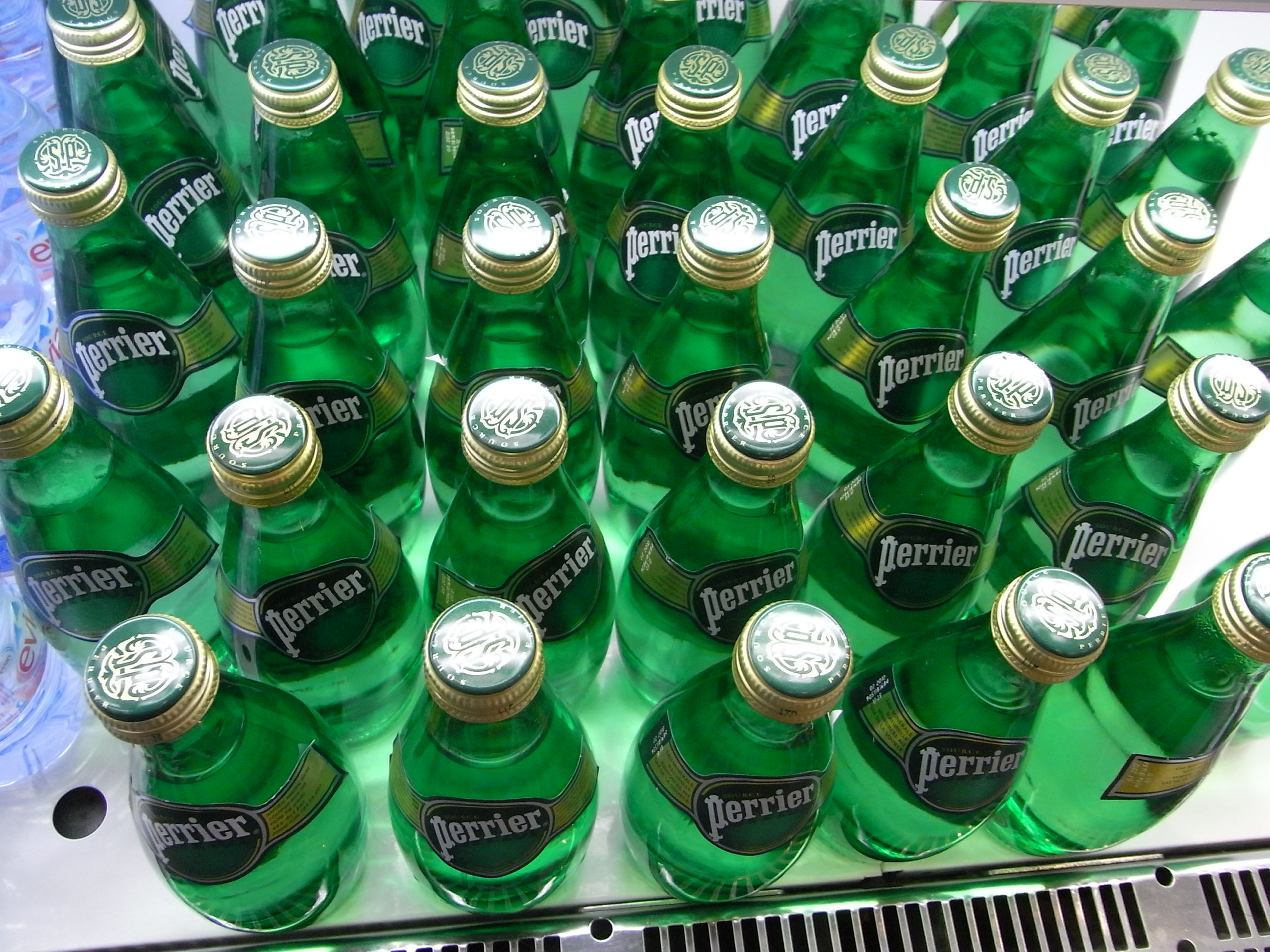 香港凌霄閣餐廳